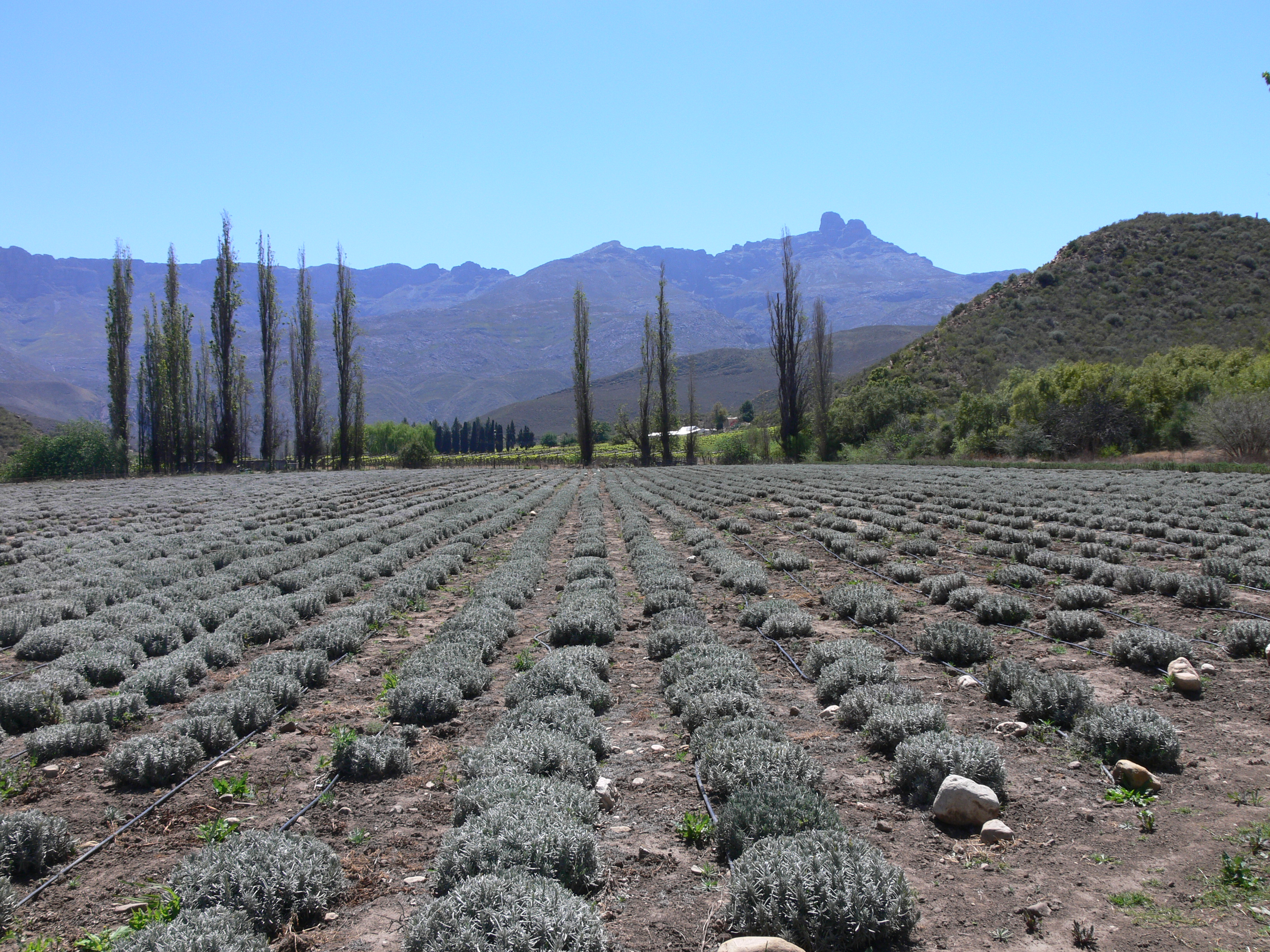 Lavenderfarm Ladismith, Klein Karoo, Western Cape, South Africa